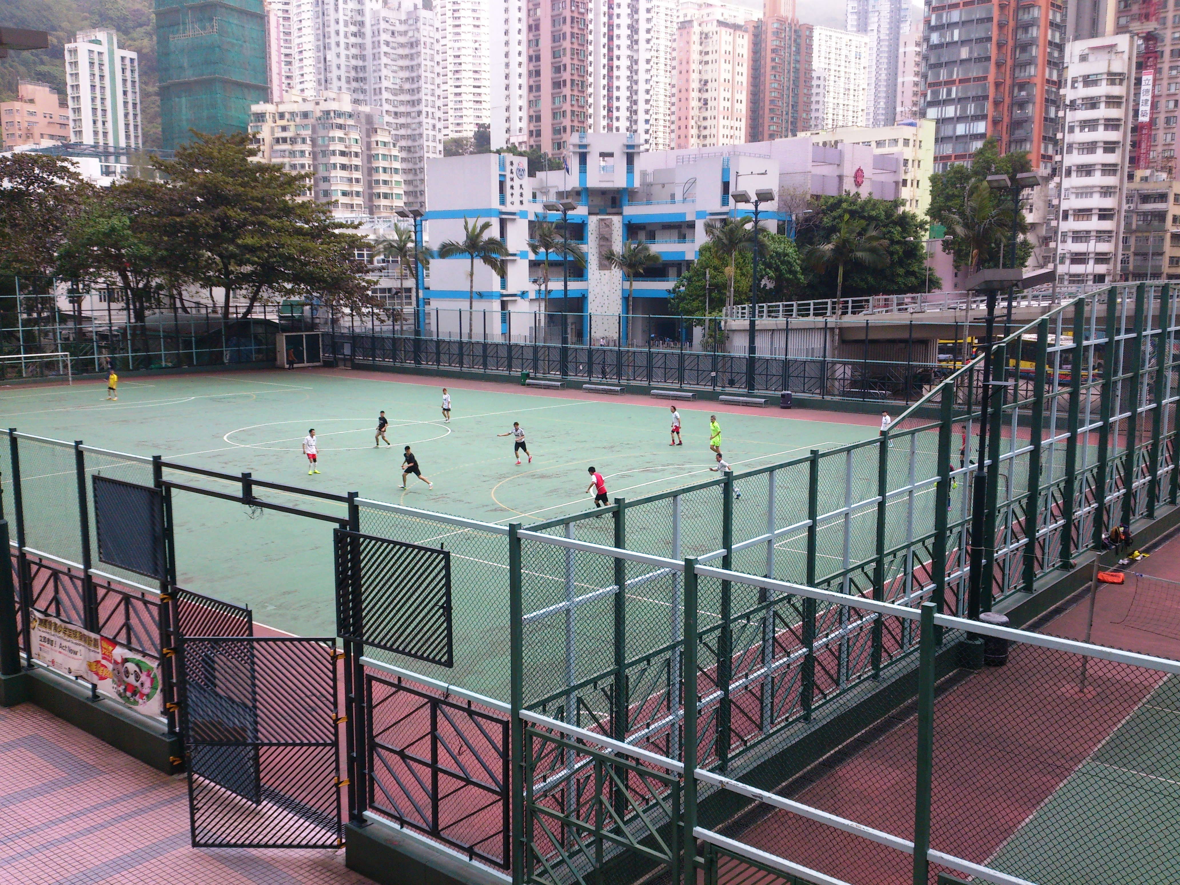 Football Pitch of Moreton Terrace Temporary Playground